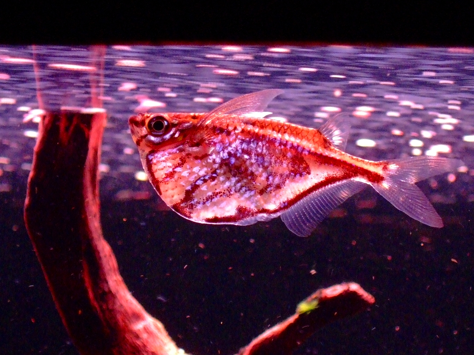 Carnegiella strigata